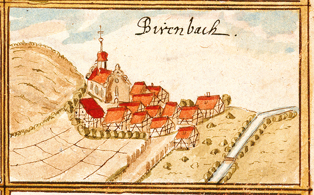 View of Birenbach from the forest register books created by Andreas Kieser